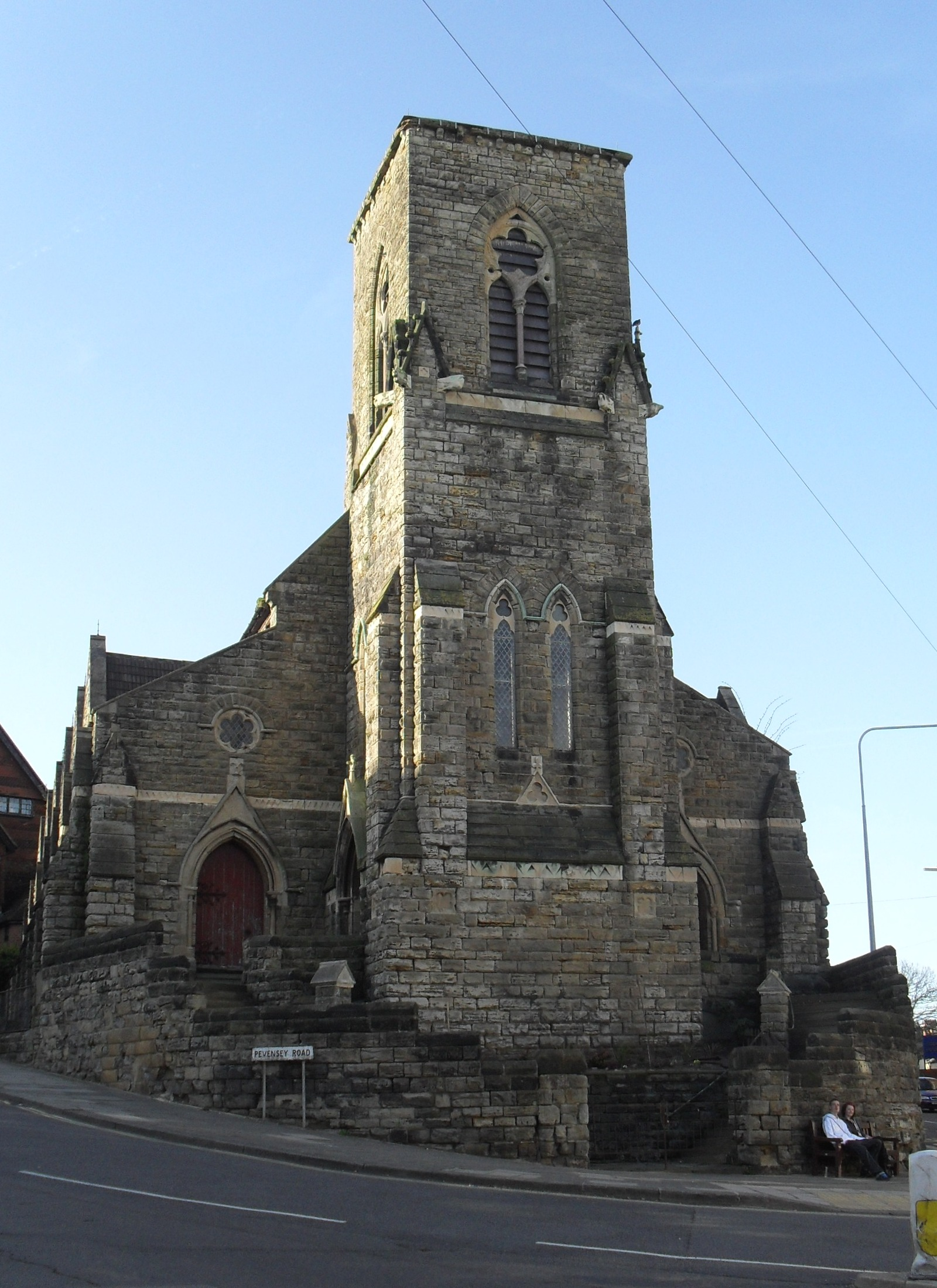 Former St Leonards URC Church, London Road/Pevensey Road, St Leonards-on-Sea, East Sussex, England. Built in 1873 by William Habershon; closed in 2008. Listed at Grade II by English Heritage (Heritage Gateway Code 491240)